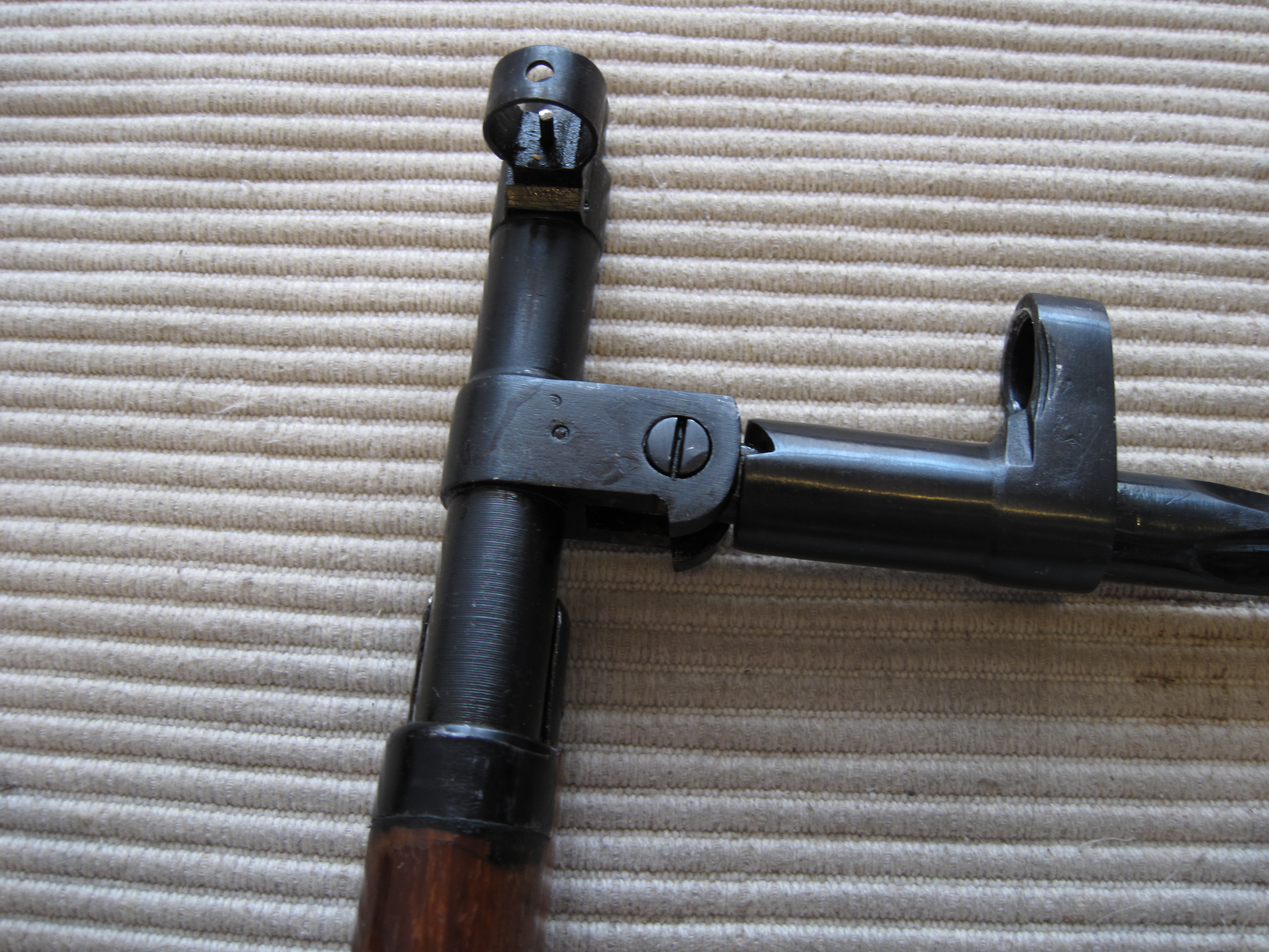 Mosin-Nagant Tula 1944 baio ring ramped